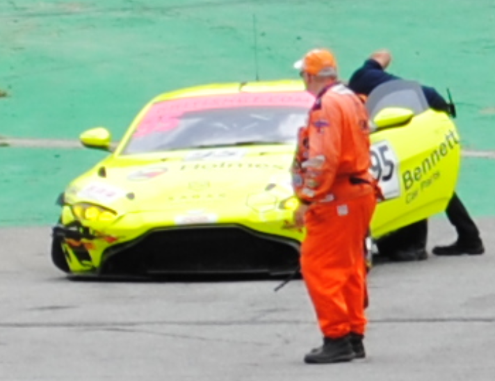 The GT4 AMR Vantage was taken out of the race even before the first turn after contact during the rolling start put the Aston Martin in the pit wall and the car pulled off the track before completing 1/3 of the first lap.